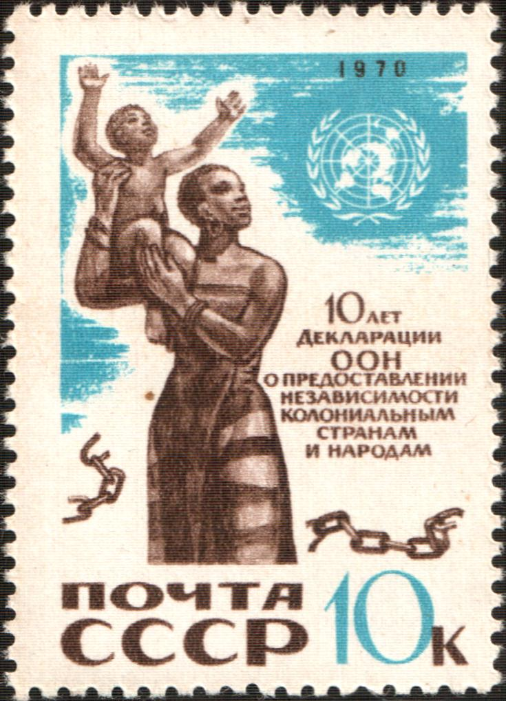 USSR stamp: UN Emblem, African Mother and Child, Broken Chain. Series: 10th Anniversary of UN Declaration on the Granting of Independence to Colonial Countries and Peoples